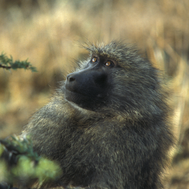 A female olive baboon (Papio anubis).